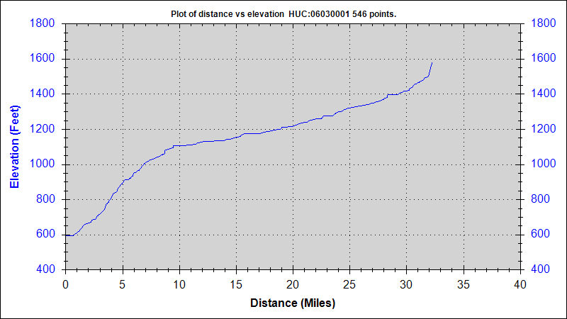 This map was created using USGS StreamStats software. Information generated by this software is considered public domain according to the USGS information policies cited here